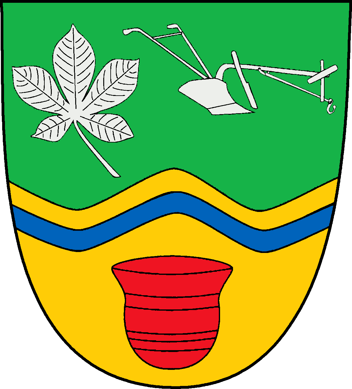 Coat of arms of the municipality Grove in Schleswig-Holstein, Germany.